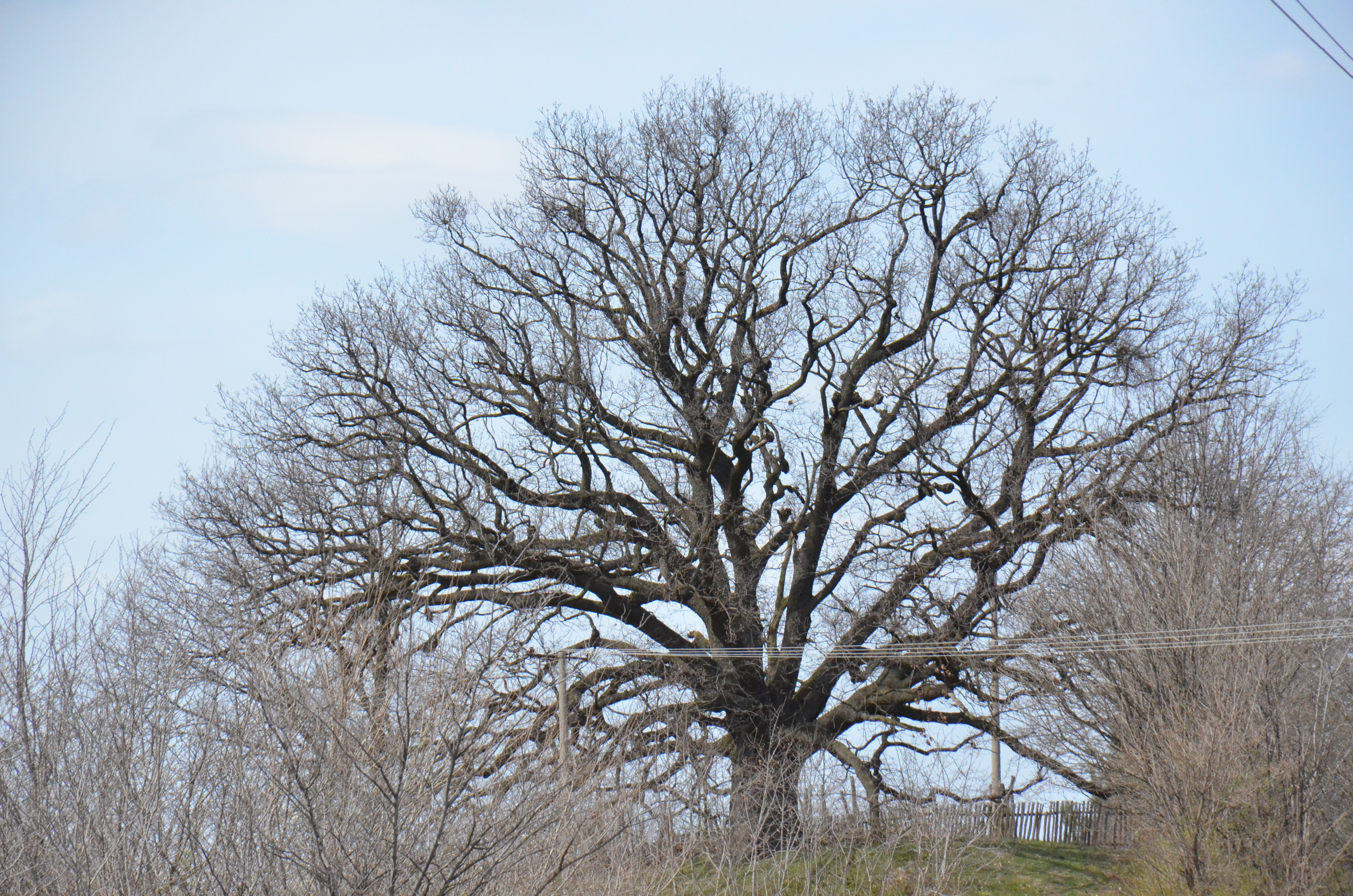 Zapis - Sacred Tree, Оак - Anđelića hrast, in village Ranilović, municipality Aranđelovac, Serbia